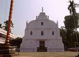 St.Thomas Malankara Syrian Orthodox Cathedral,Kadampanad,Adoor,Established- AD 325